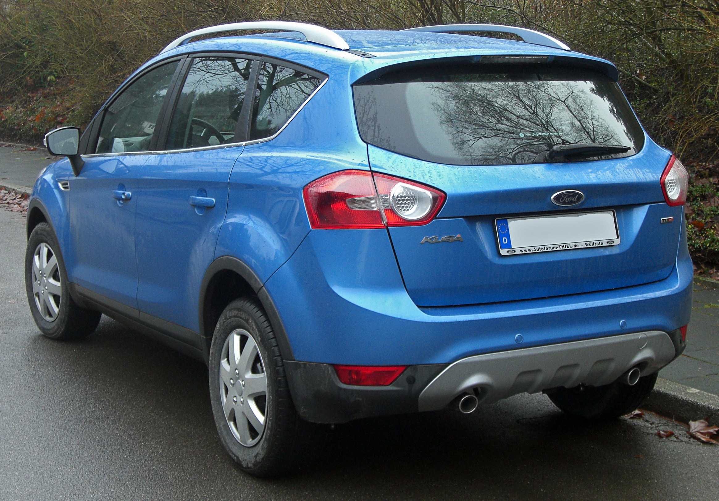 Description: Ford Kuga Source: Matthias Other Version(s)